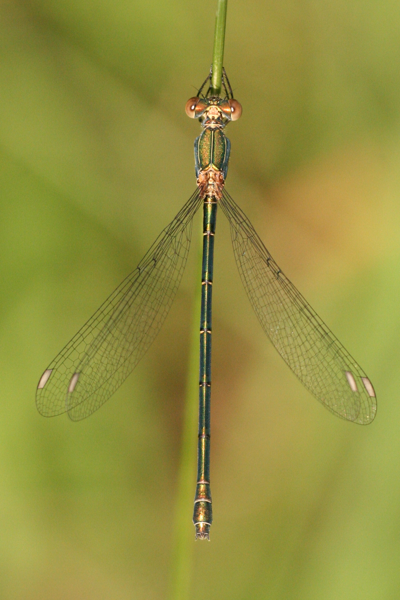 A female Willow Emerald Damselfly (Chalcolestes viridis), photographed in Weinsberg